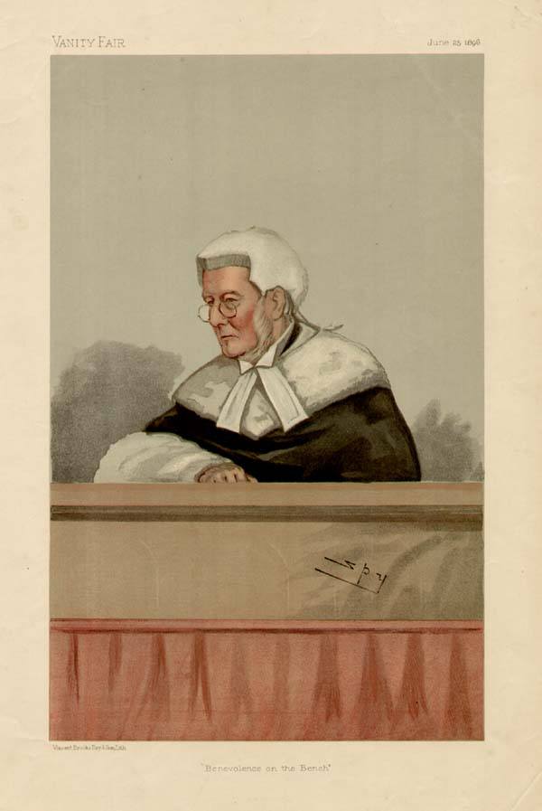 Caricature of The Hon Sir Alfred Wills. Caption read "Benevolence on the Bench".